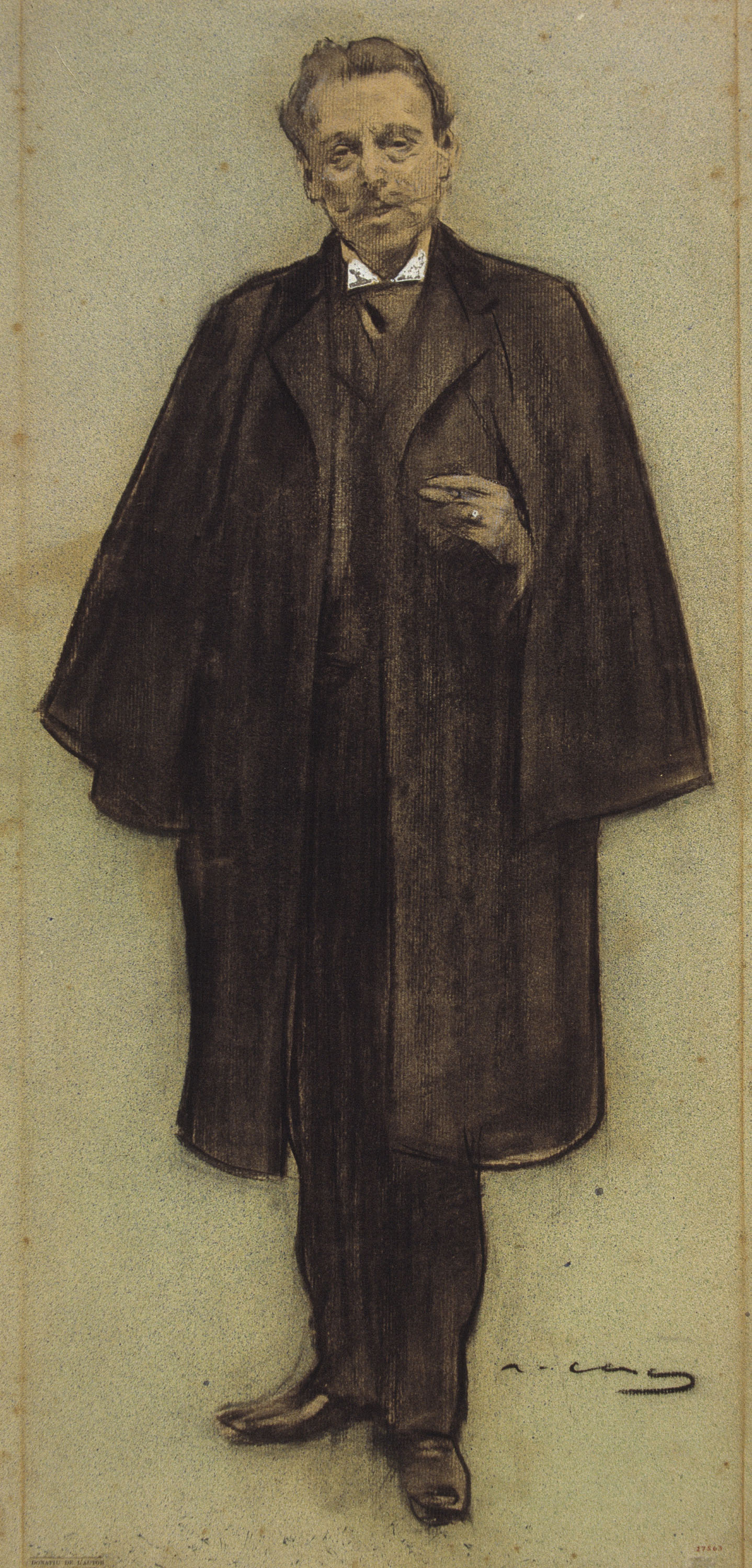 Portrait by Ramon Casas conserved at MNAC in Barcelona. Imagen 059